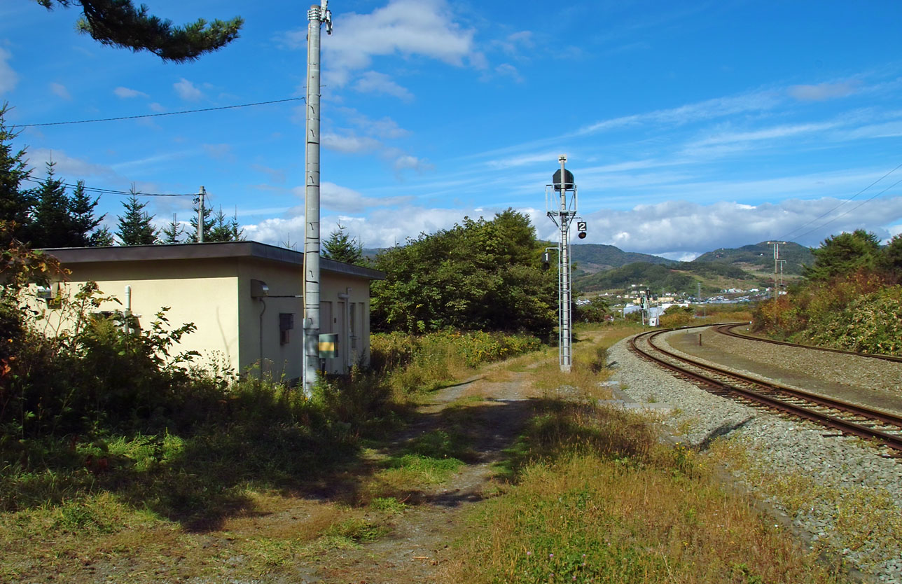 Kita-irie signal, Toyako, Hokkaido, Japan